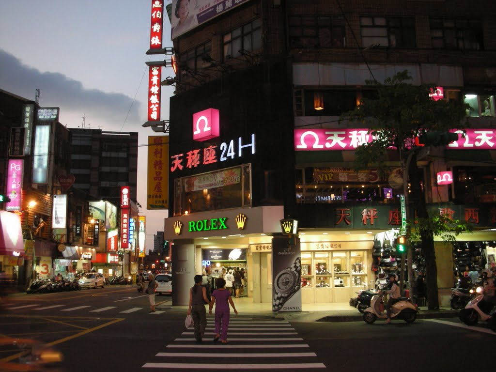 Nightscene of Zhongzheng Road, Taoyuan City, Taoyuan County, Taiwan.